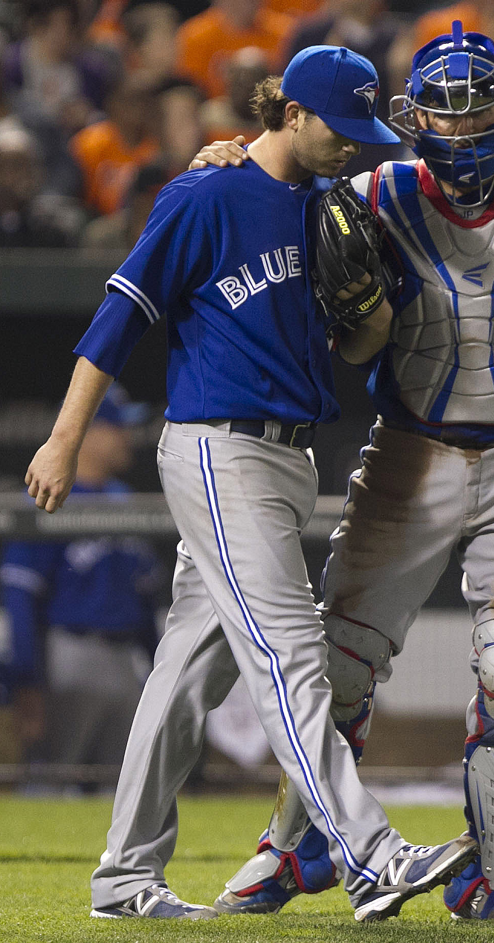 Drew Hutchison